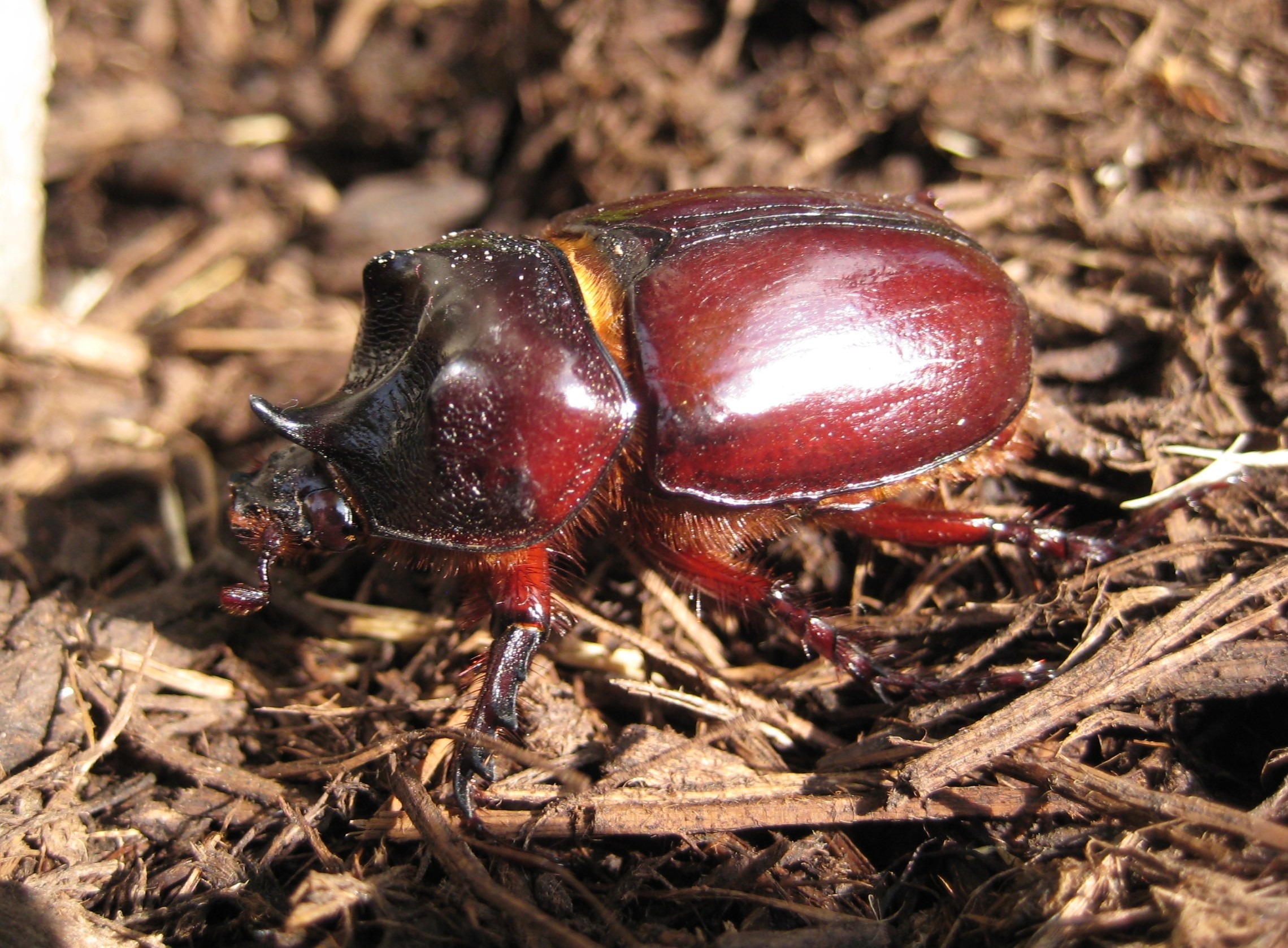 Strategus aloeus commonly known as the Ox Beetle; Austin, TX